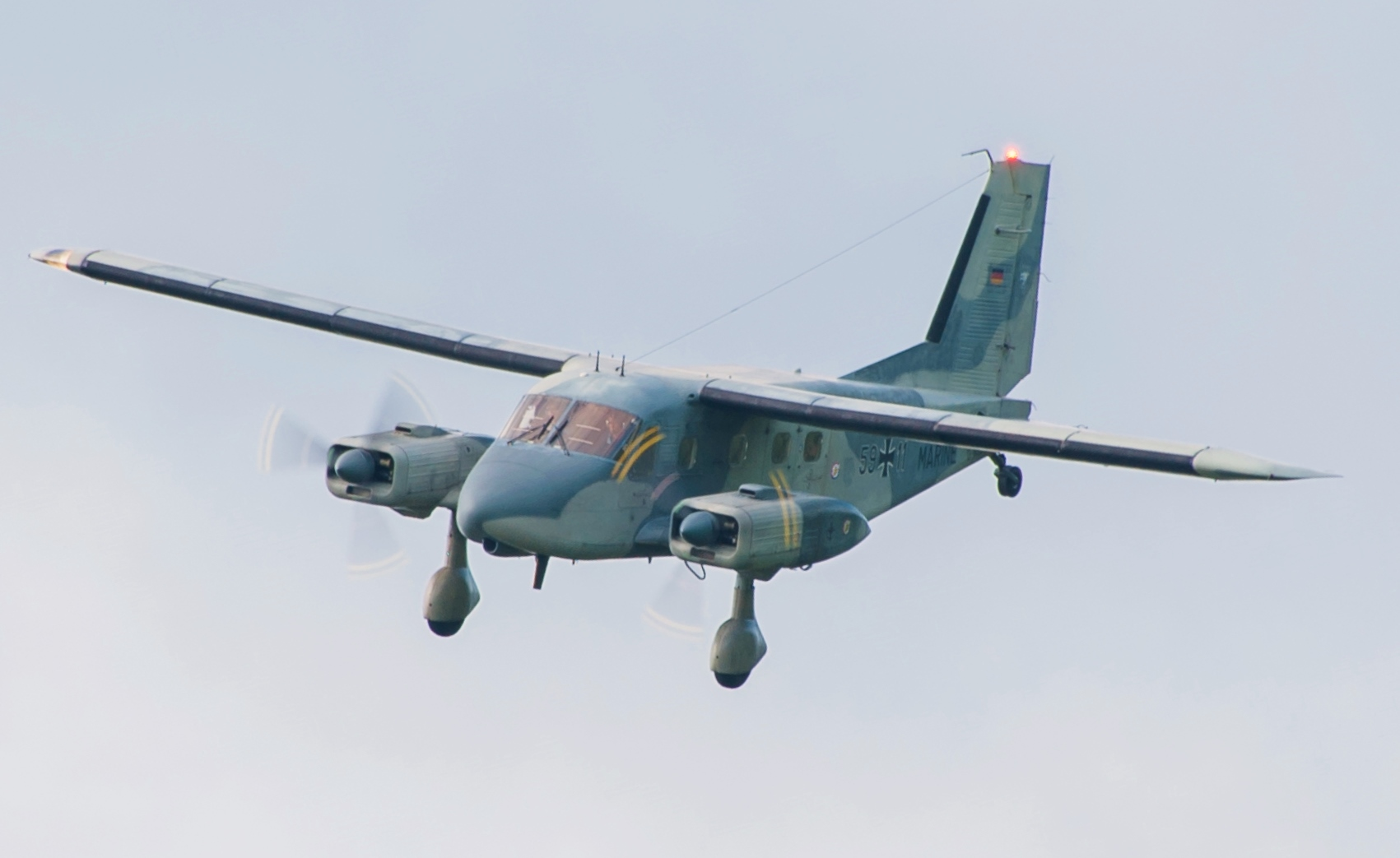 cropped - rotated view of this (Dornier Do-28) file